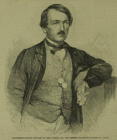 Edward St John Neale, British Charge d'Affaires in Japan